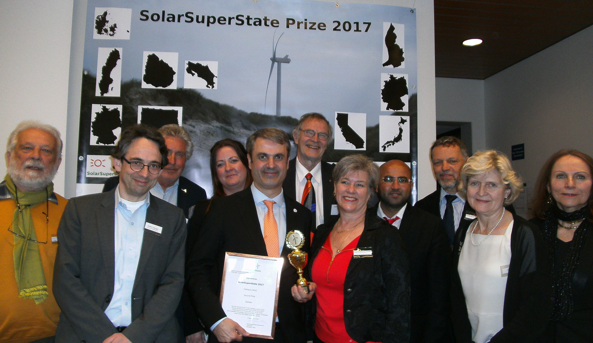 2. SolarSuperState Prize 2017 category Wind for Sweden with Swedisch energy minister Ibrahim Baylan